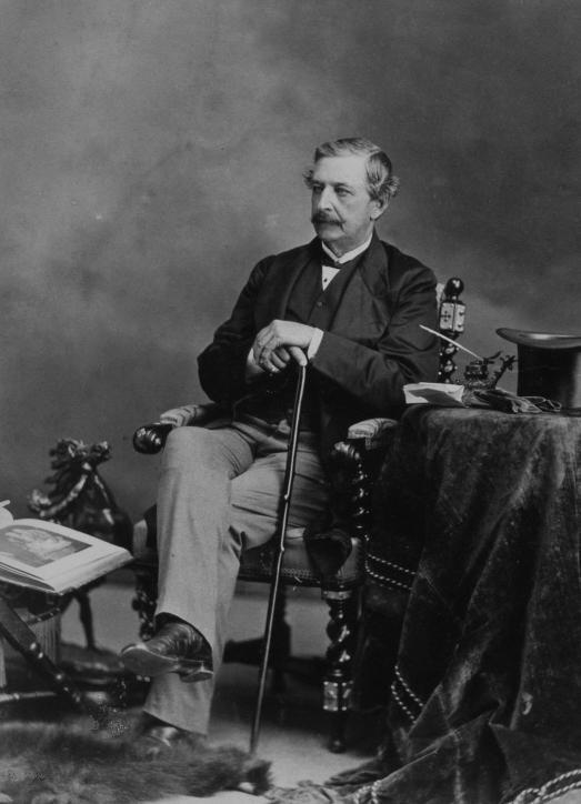 Photograph, Governor Hill of Newfoundland, Montreal, QC, 1870, William Notman (1826-1891), Silver salts on paper mounted on paper - Albumen process - 13.7 x 10 cm